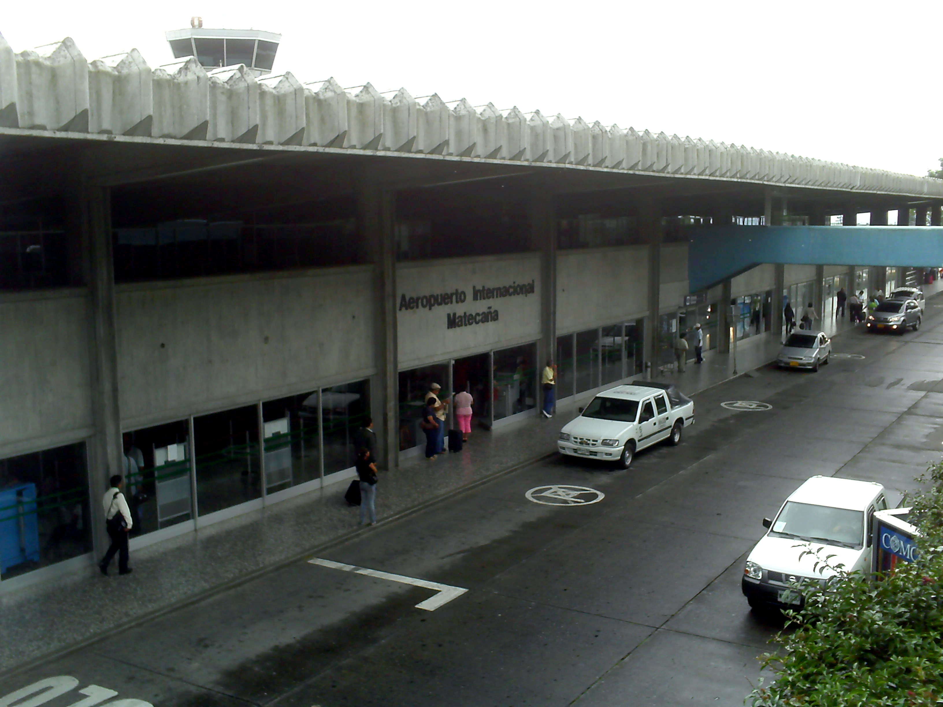 Airport Matecaña of Pereira